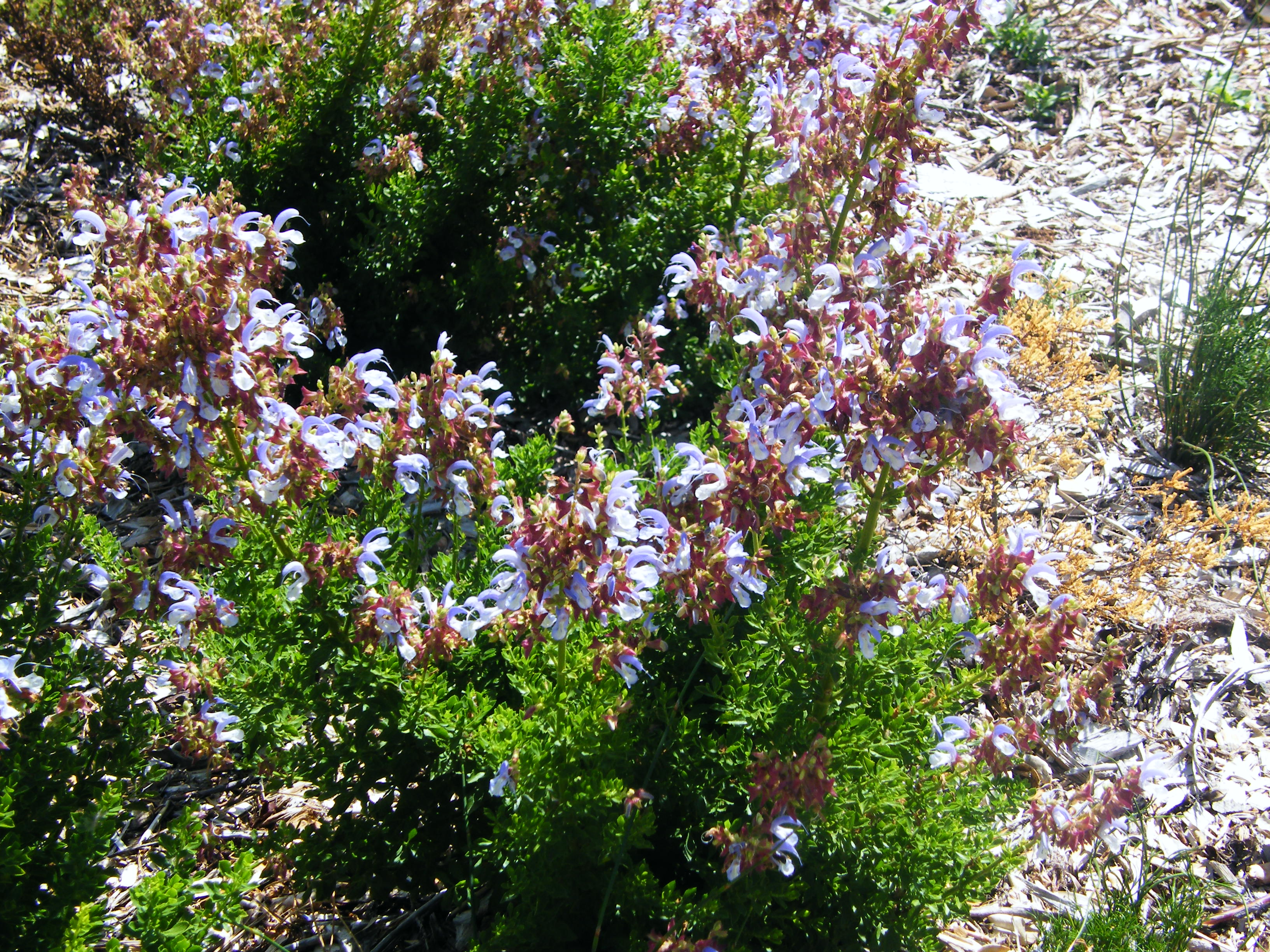 Salvia chamelaeagnea